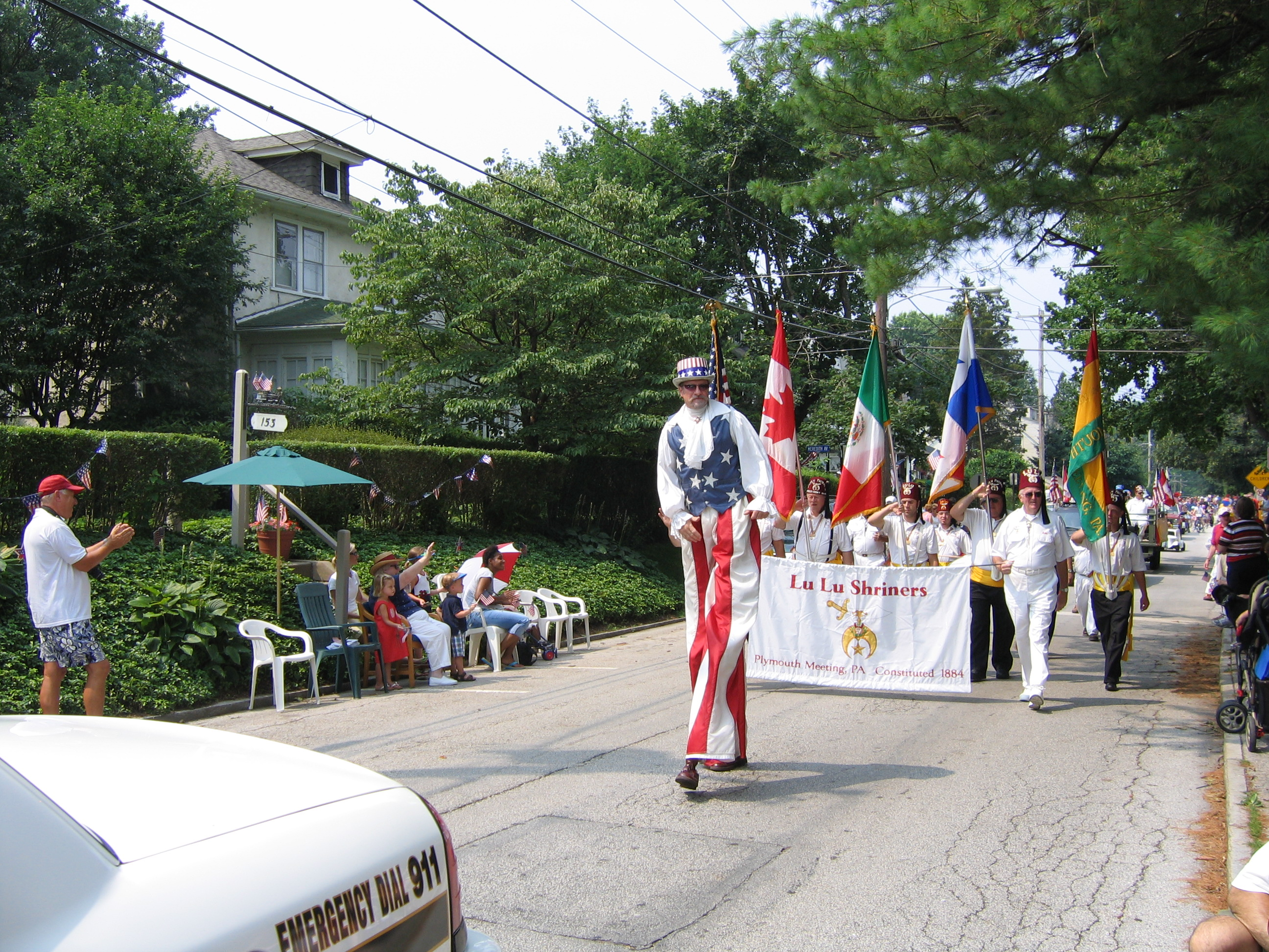 Independence Day parade in Garrett Hill. Photographed by Dennis Brennan on July 4, 2006.